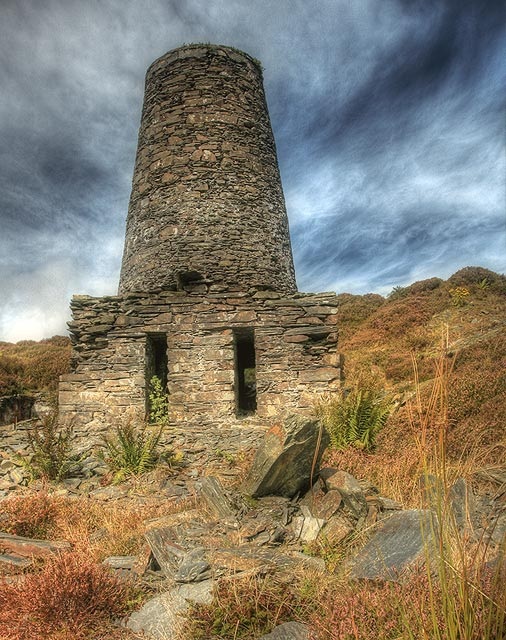 Photograph of windmill tower, South Barrule, Isle of Man